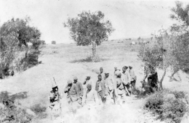 Turkish prisioners of war escorted by allied soldiers near Chunuk Bair